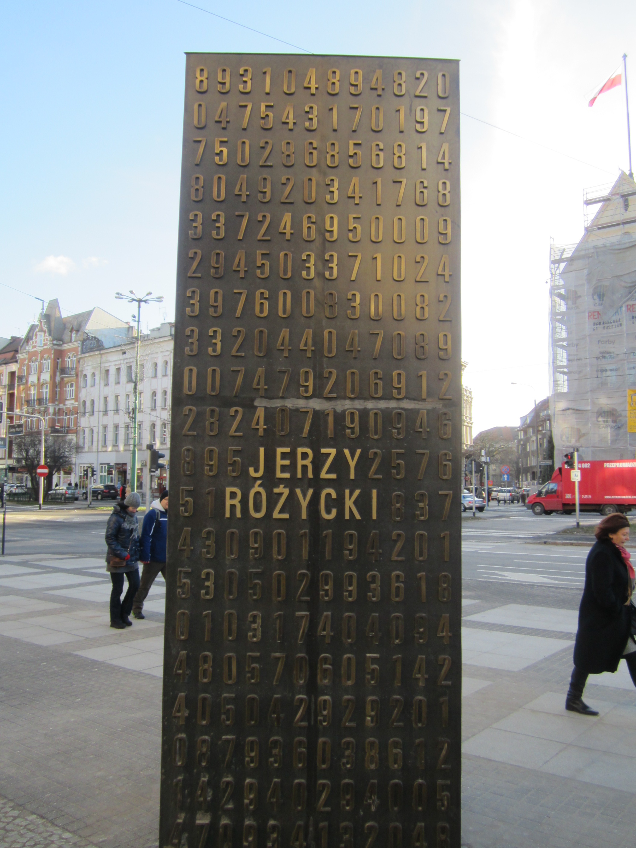 Jerzy Różycki deciphered the Nazis code comunications during the World War II